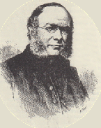 Henry Longueville Mansel (1820-1871)